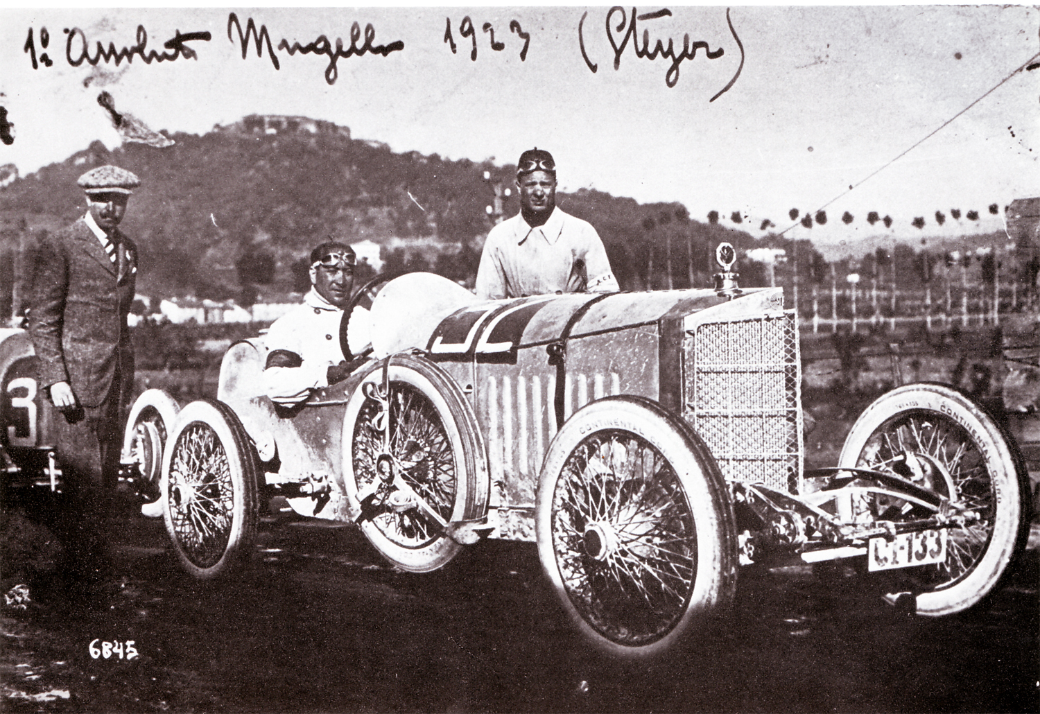 The writing indicates this is Brilli-Peri at 1923 Mugello, which he won (entry #32 is different from the entry #16 indicated here: [1]). He drove a Steyr VI Klausen Sport. The Count Gastone Brilli Peri became world champion in 1925.